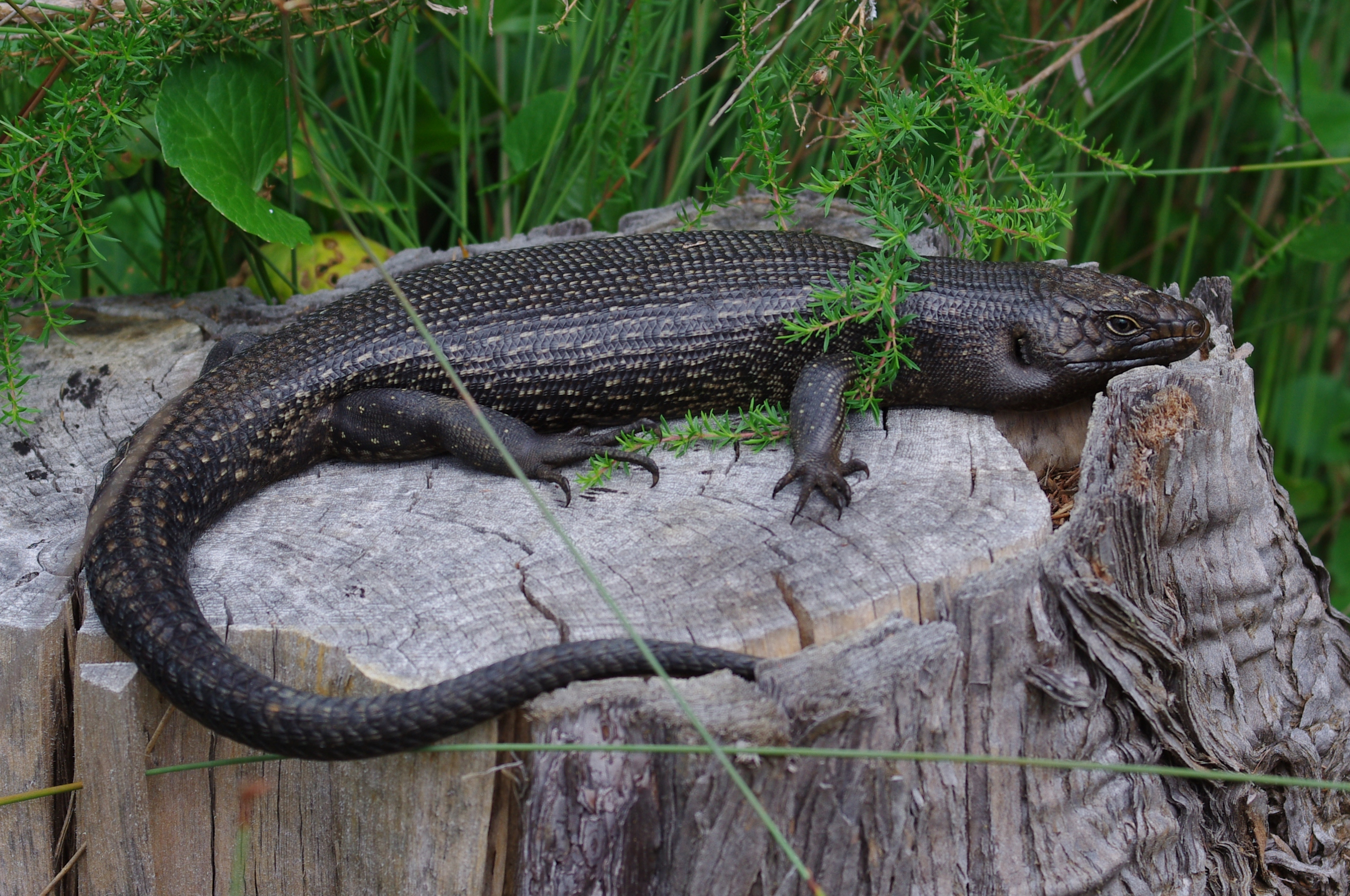 It is easy to see why this species of skink is called the King Skink. That tree trunk he is stitting on is at least foot in diameter!